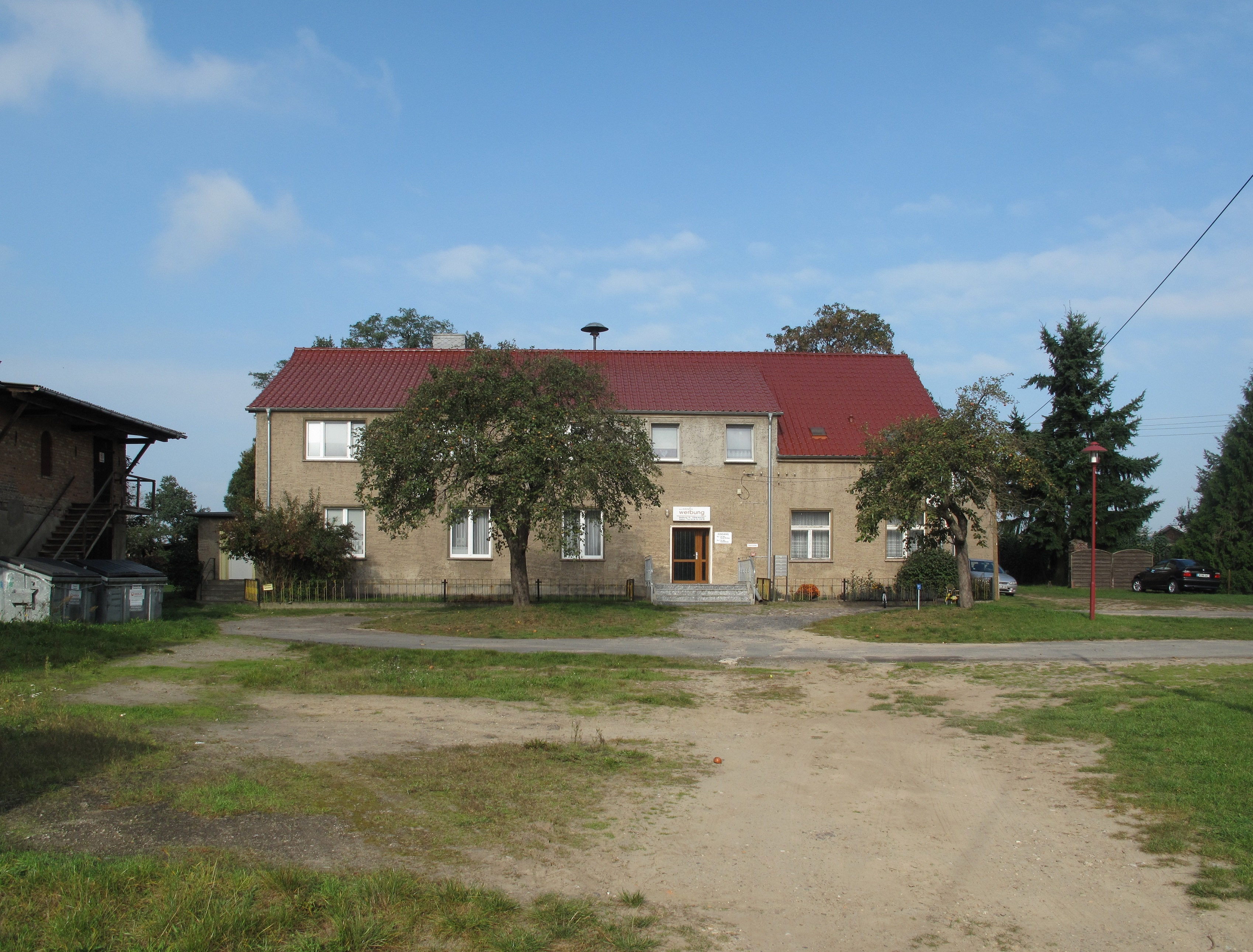 Former manor house (residential building today) of the estate in the village Ranzig. Ranzig is a part (german: Ortsteil) of the municipality Tauche in the District Oder-Spree, Brandenburg, Germany.